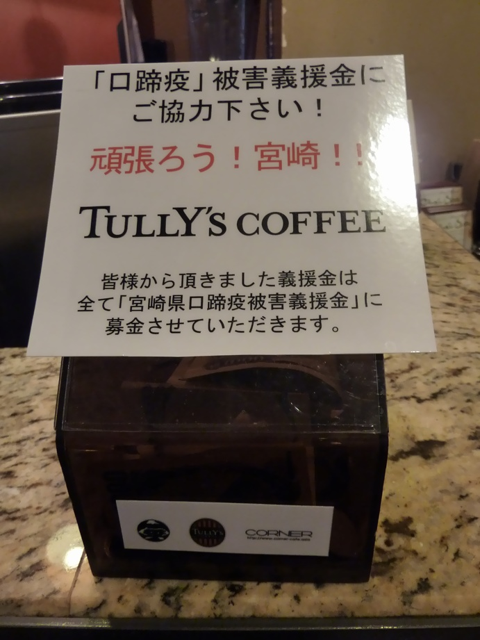 The Collection Box for a Donation of FMD in Tully's Coffee (Miyazaki Tachibana Street Store), Miyazaki City, Japan.